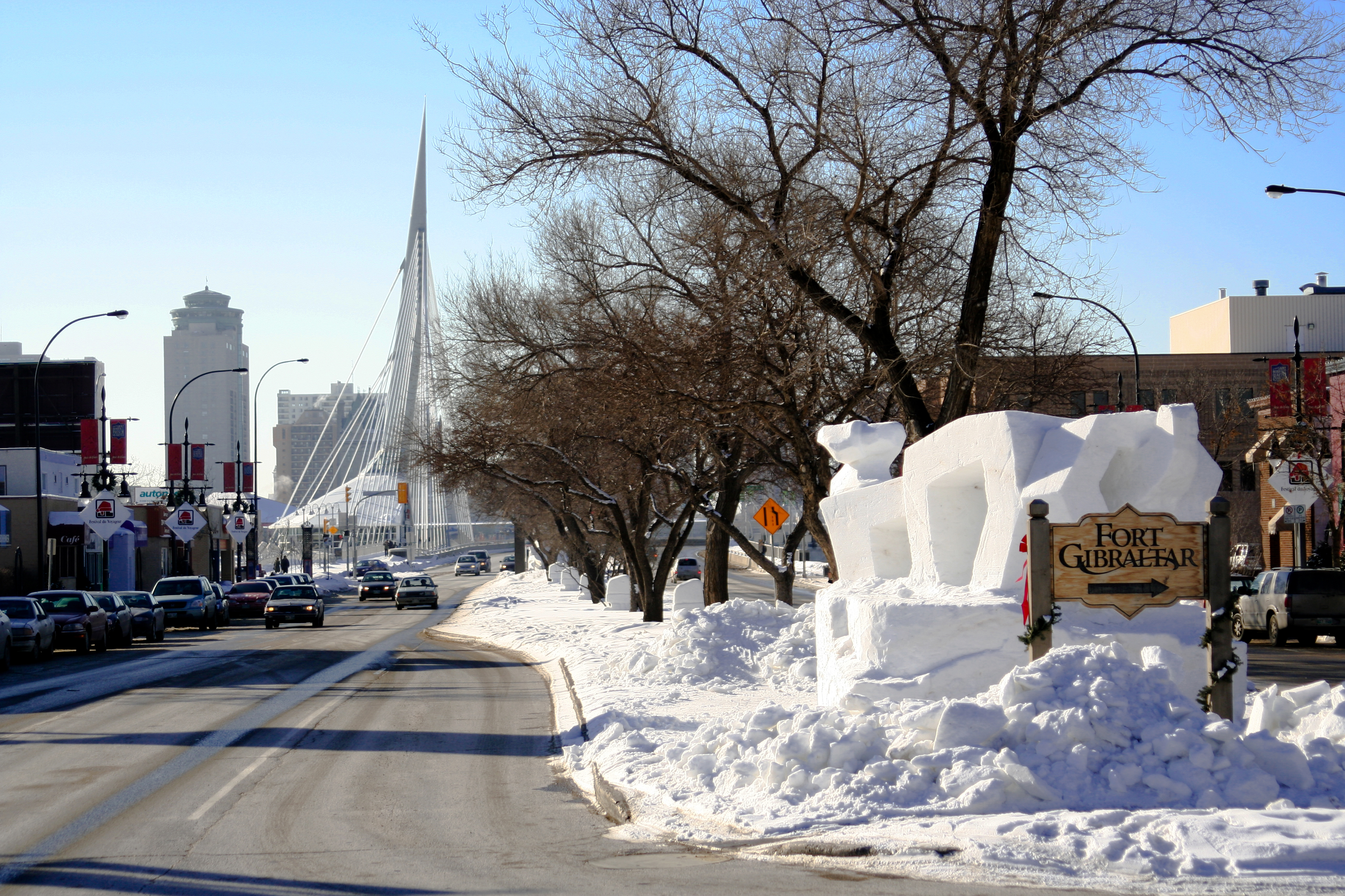 Festival Du Voyageur